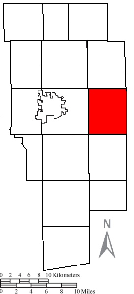 Originally created by the US Census. Modified by myself to highlight the township.